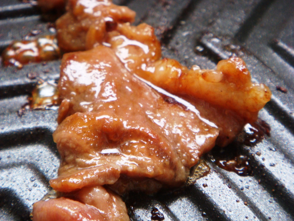 grilled mutton jingisukan